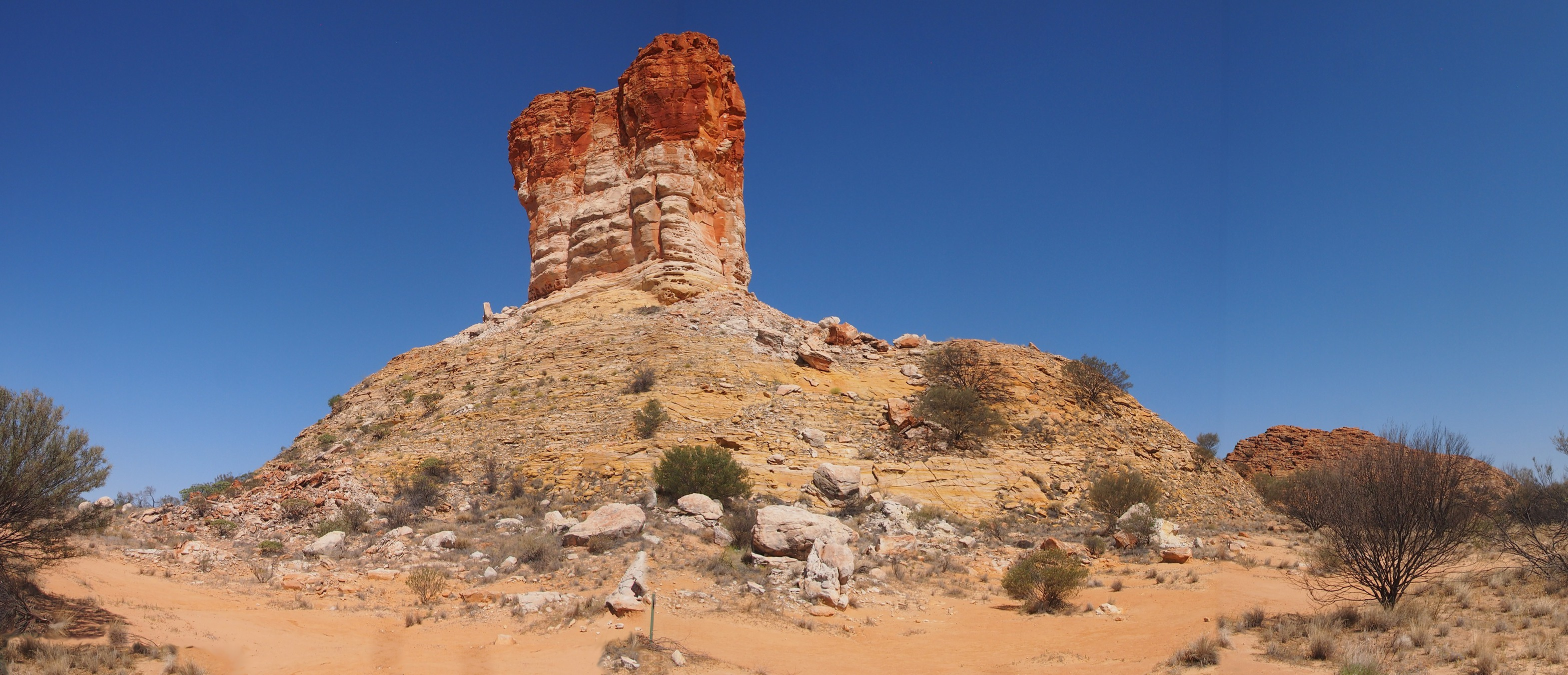 Eastern Face of Chamber's Pillar